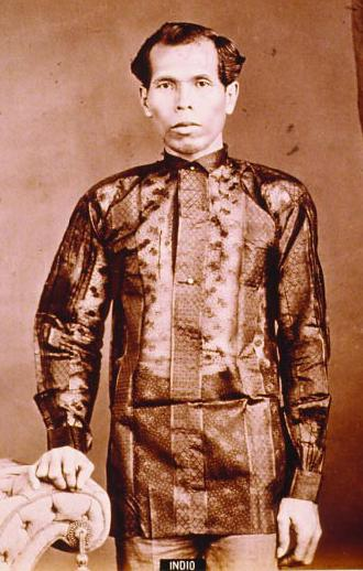 Photograph of a Philippine "Indio" dressed in "Baro ng Tagalog"